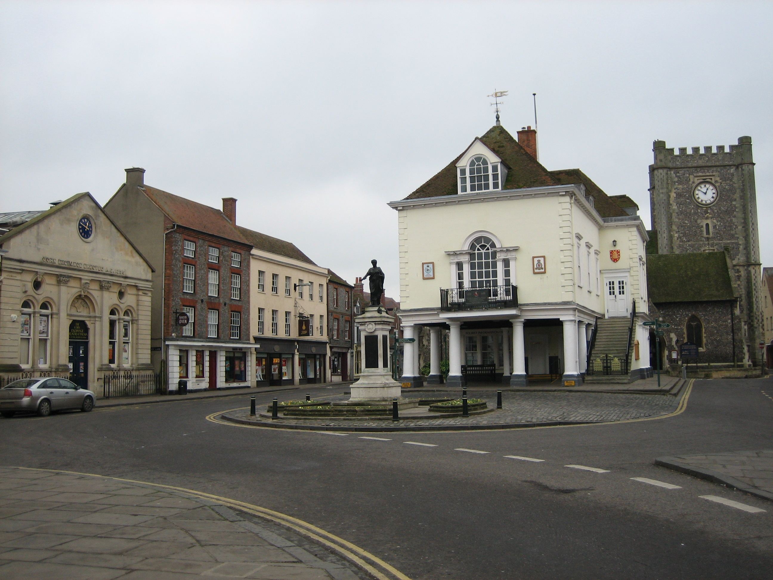 Wallingford town centre, with the Town Hall in the foreground and the church of St Mary-le-More in the background on the right